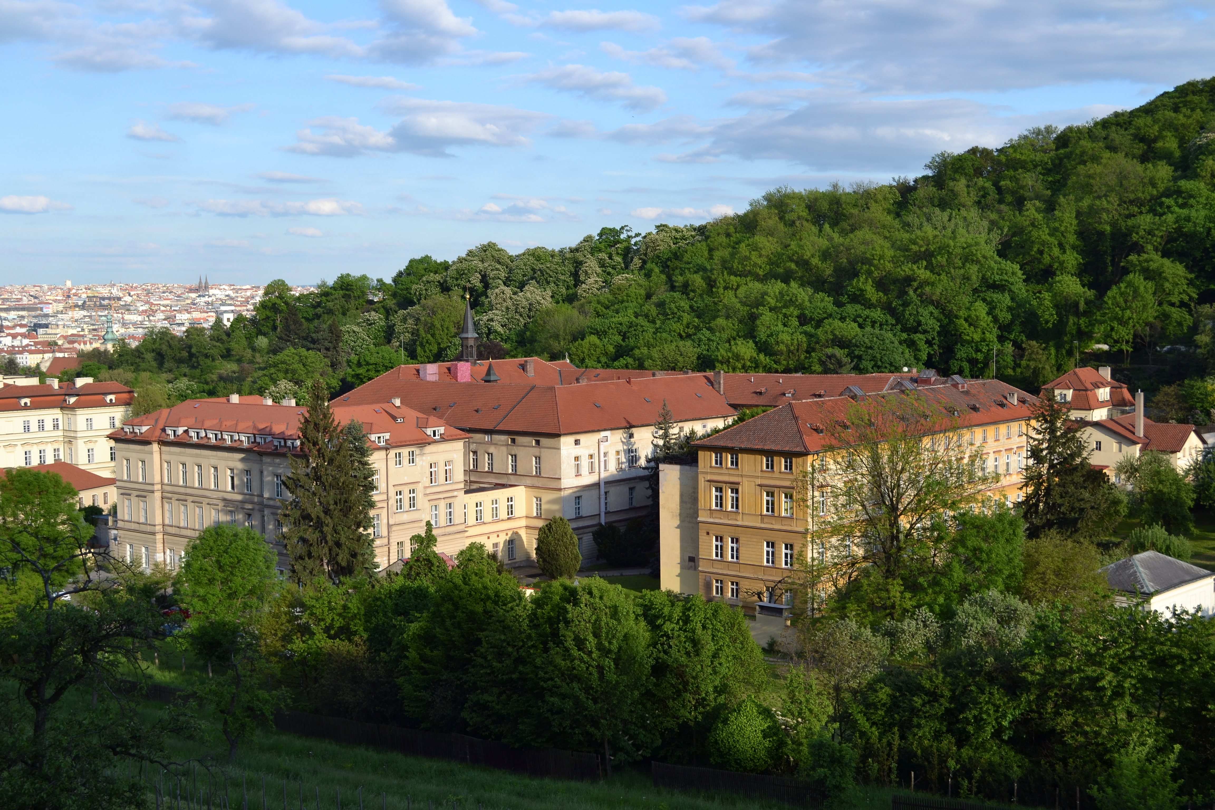 Hospital "Nemocnice Milosrdných sester sv. Karla Boromejského", Malá Strana, Prague 1, Czech Republic. View from "Úvoz" street.